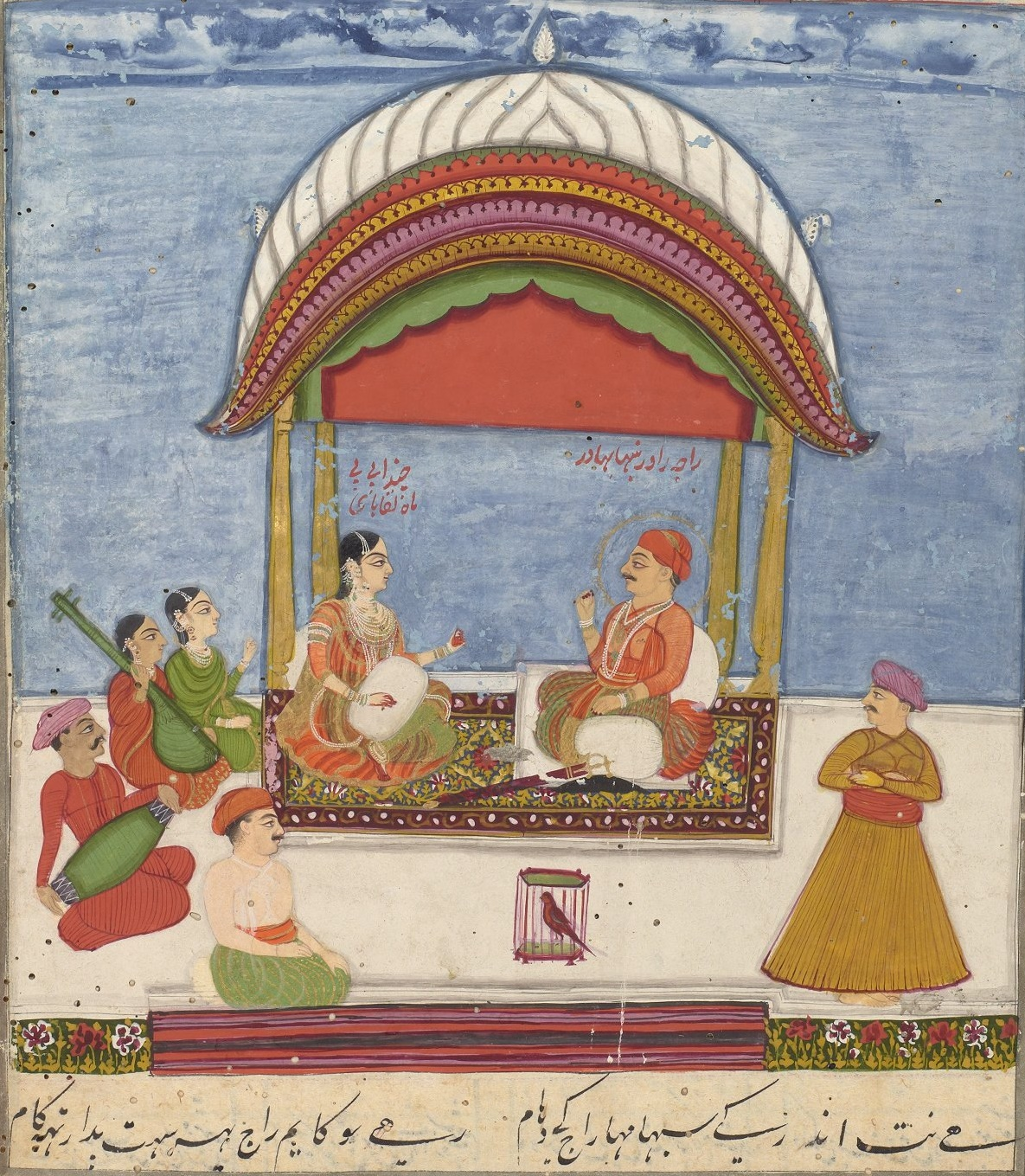 Mah Laqa Bai singing in the presence of Raja Rao Rambha Bahadur-( Maratha General of Nizam II army)